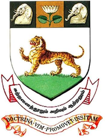 university logo